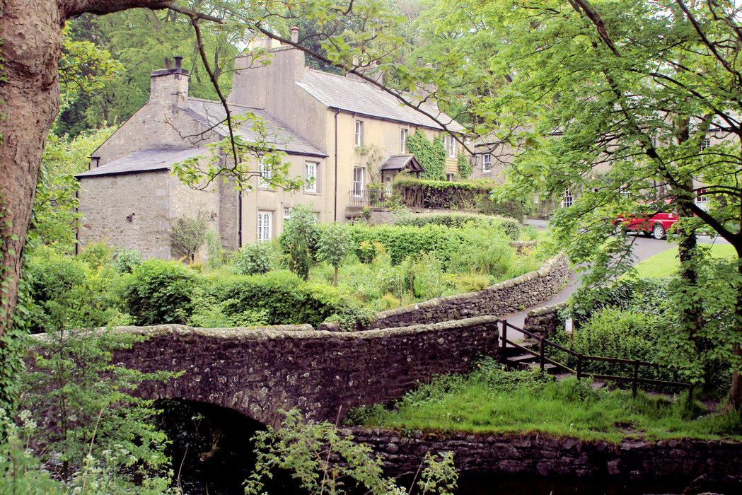 This view of Clapham is popular with visiting photographers.